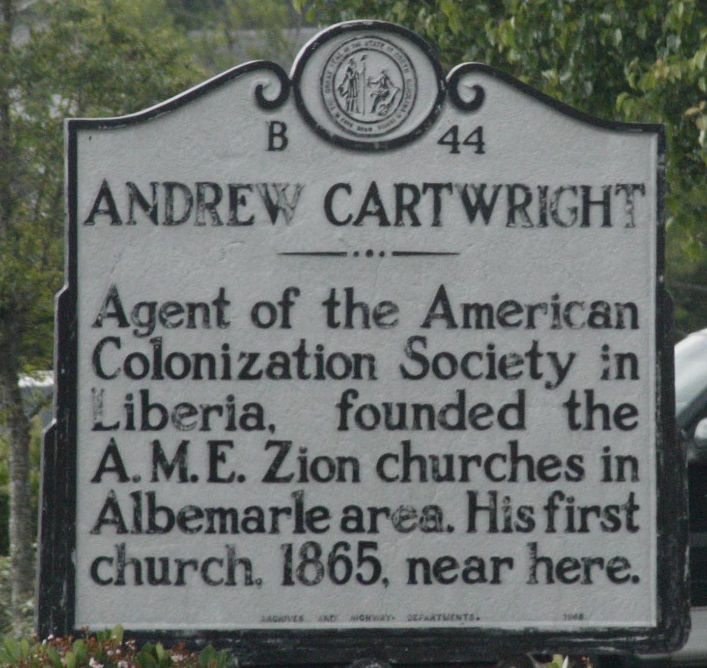 The first venture in Foreign Missions for the African Methodist Zion Church "The Freedom Church" was when Andrew Cartwright, a New England minister, went to Africa during the President Monroe movement of organizing Liberia out of former American slave population. He started the church’s first work on foreign soil in Liberia.